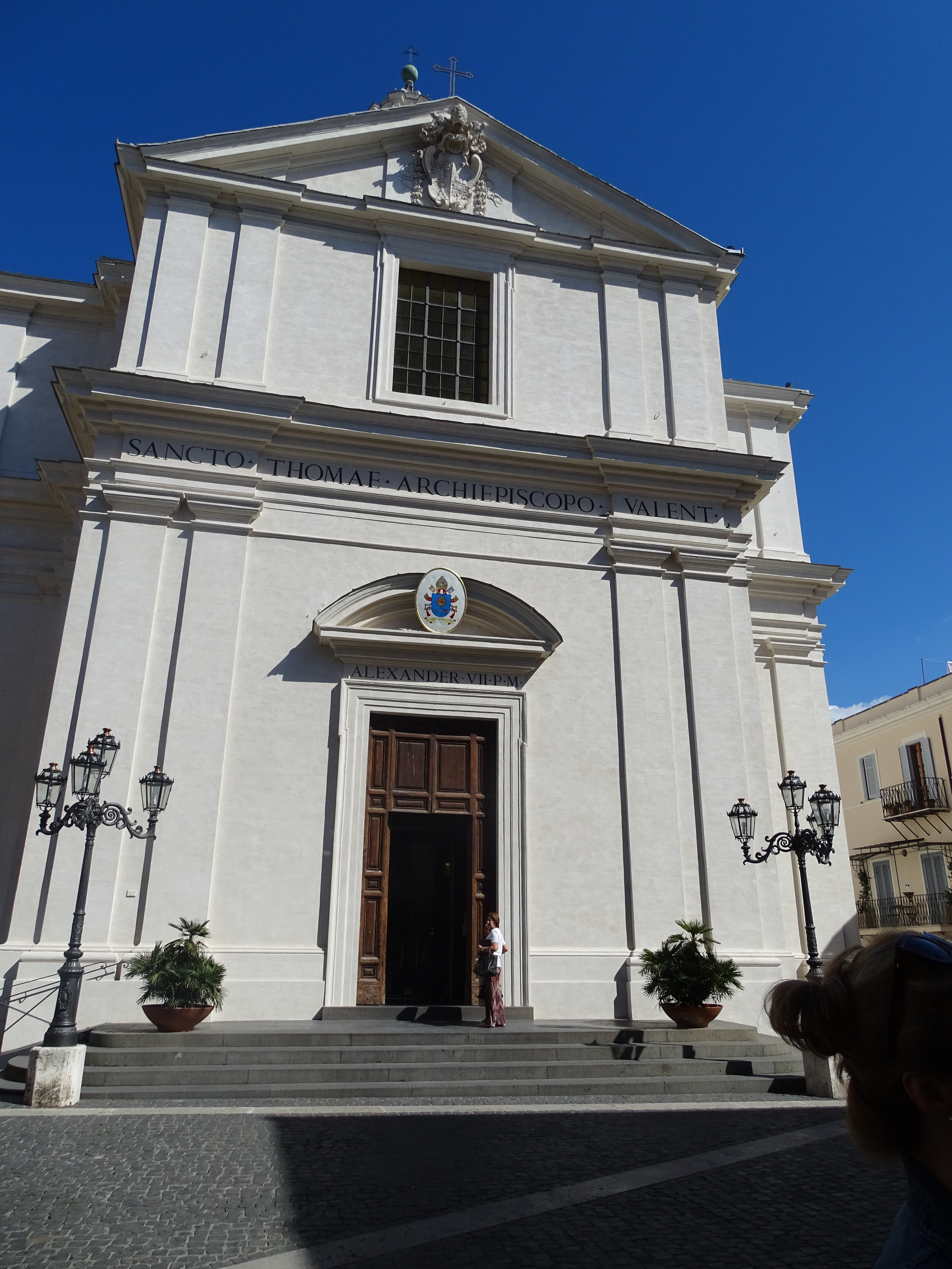 Castel Gandolfo - Collegiate Church of San Tommaso da Villanova (2014)